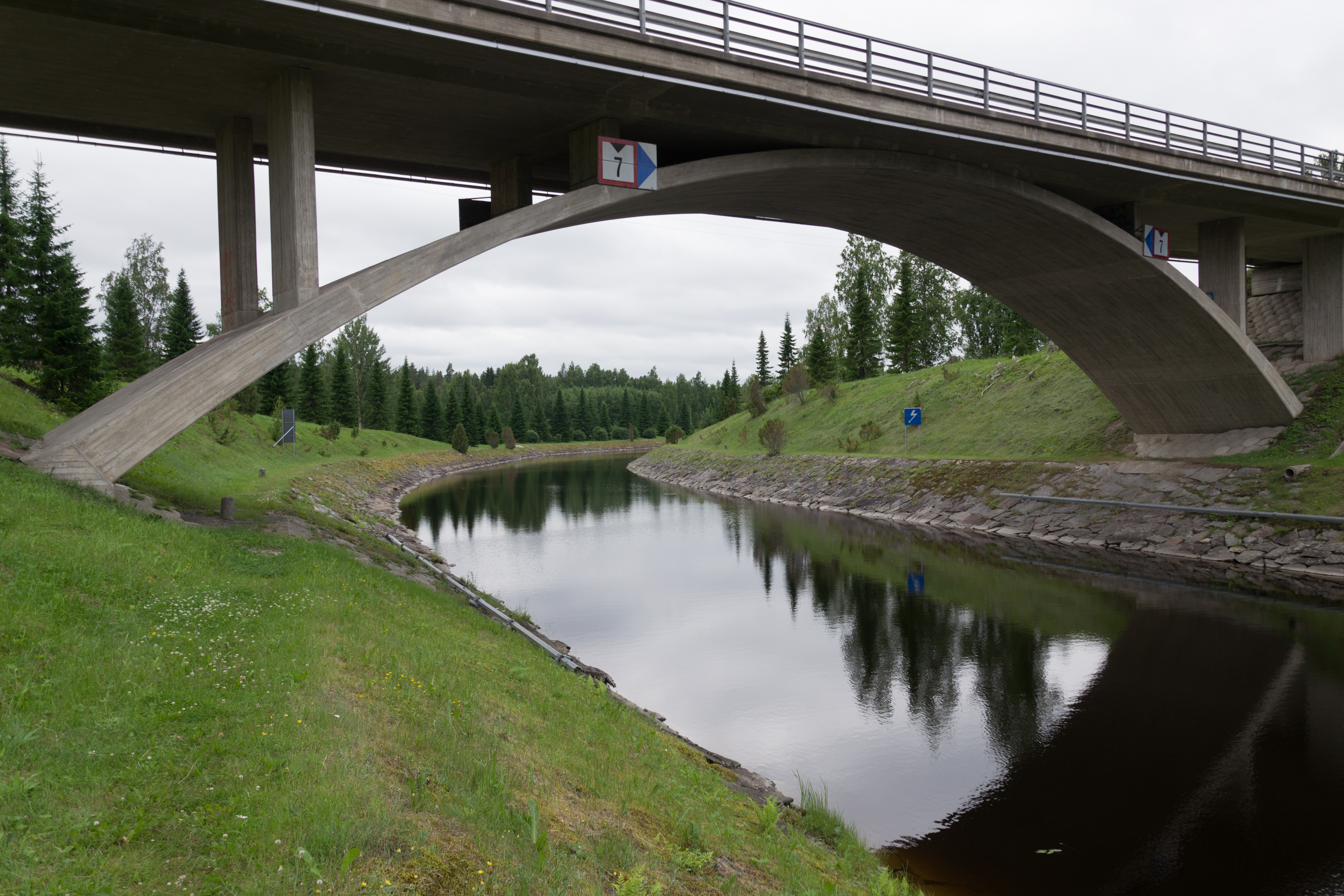 Herraskoski Canal in Virrat, Finland.